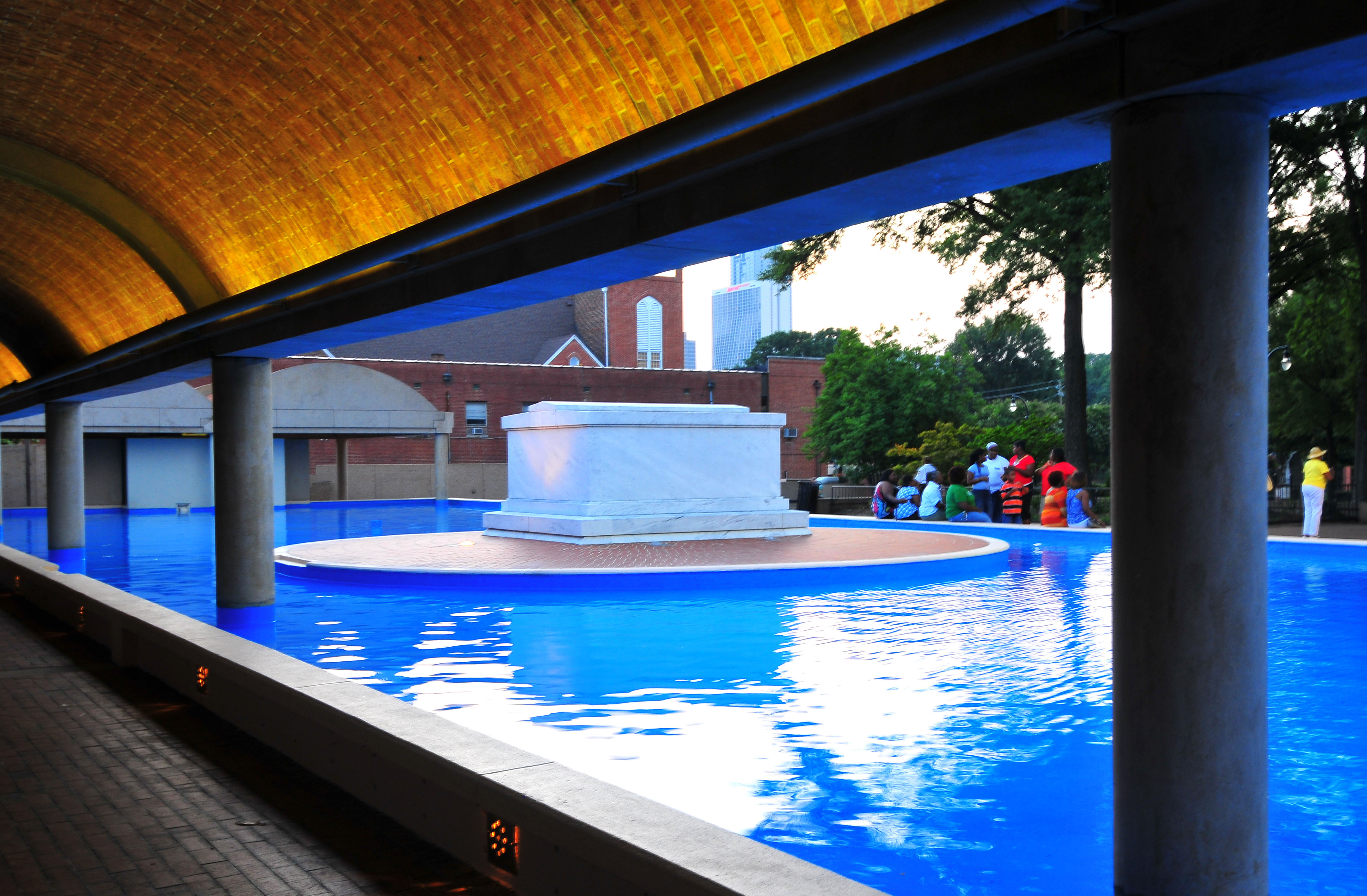 Martin Luther King, Jr., National Historic Site and Preservation District